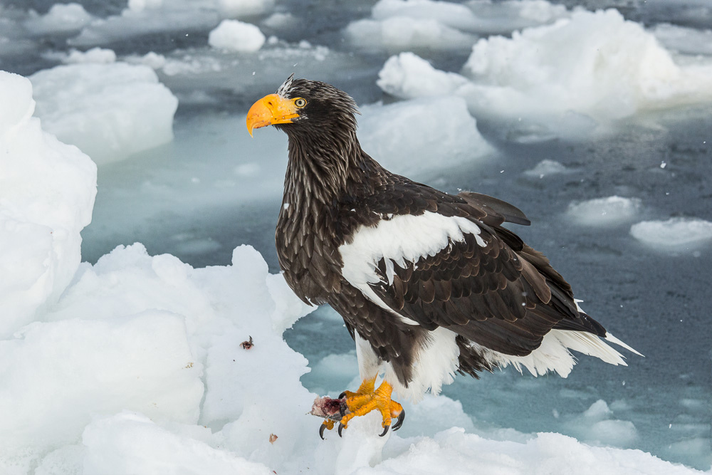 A Steller's Sea Eagle (Haliaeetus pelagicus) in Rausu, Hokkaido, Japan.